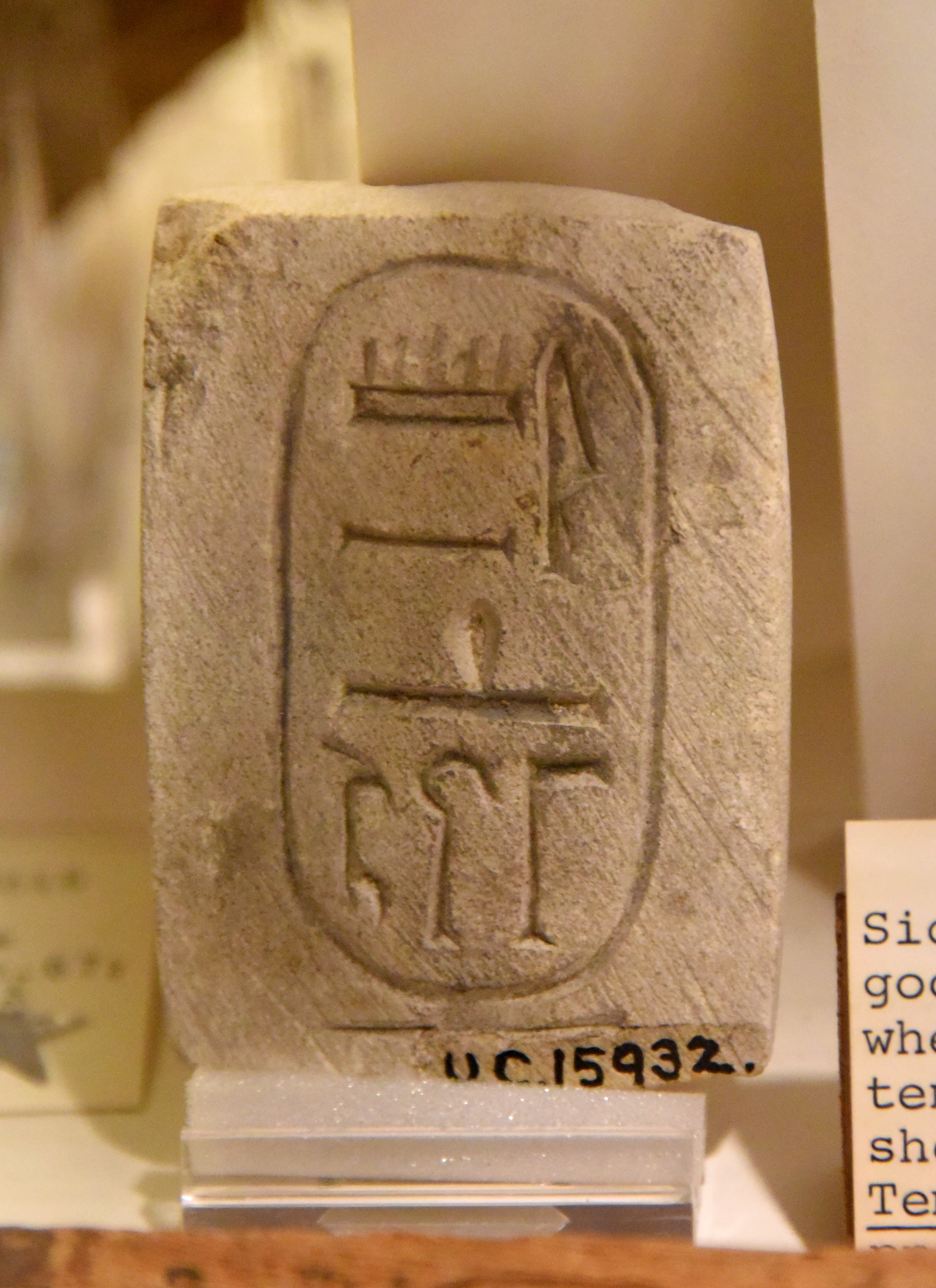 Foundation tablet bearing the cartouche of the birth name and epithet "Amenhotep, the God, the Ruler of Thebes". 18th Dynasty. From Temple of Amenhotep II at Kurna (Qurnah, Qurna, Gourna, Gurna), Egypt. The Petrie Museum of Egyptian Archaeology, London. With thanks to the Petrie Museum of Egyptian Archaeology, UCL.